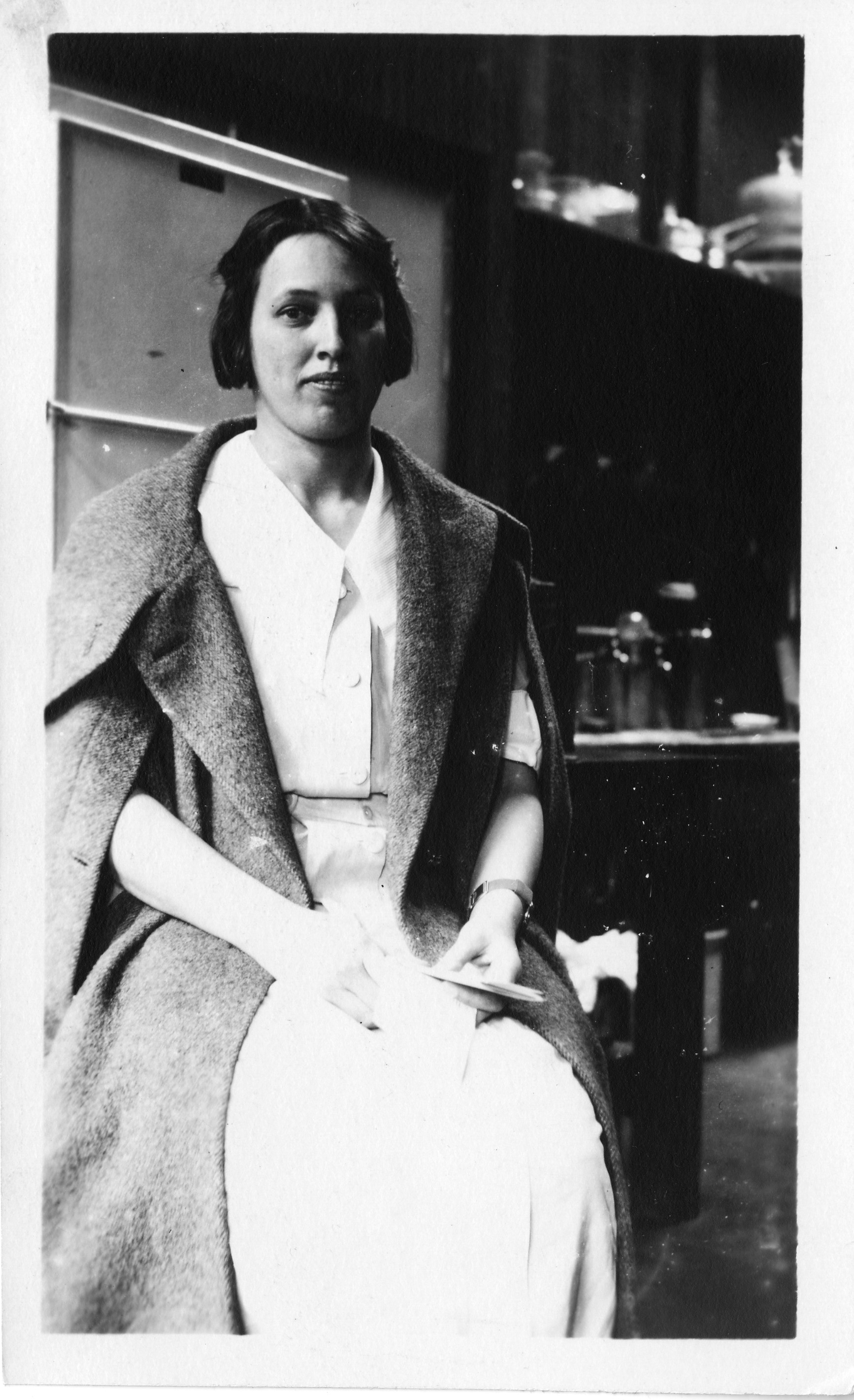 Description: Trained as an anatomist, Katharine J. Scott Bishop (1889-1976) graduated from Johns Hopkins University School of Medicine in 1915 and, working with Herbert M. Evans, discovered the importance of Vitamin E. Creator/Photographer: Unidentified photographer Medium: Black and white photographic print Persistent URL: Repository: Smithsonian Institution Archives Collection: Accession 90-105: Science Service Records, 1920s – 1970s - Science Service, now the Society for Science & the Public, was a news organization founded in 1921 to promote the dissemination of scientific and technical information. Although initially intended as a news service, Science Service produced an extensive array of news features, radio programs, motion pictures, phonograph records, and demonstration kits and it also engaged in various educational, translation, and research activities. Accession number: SIA2007-0235